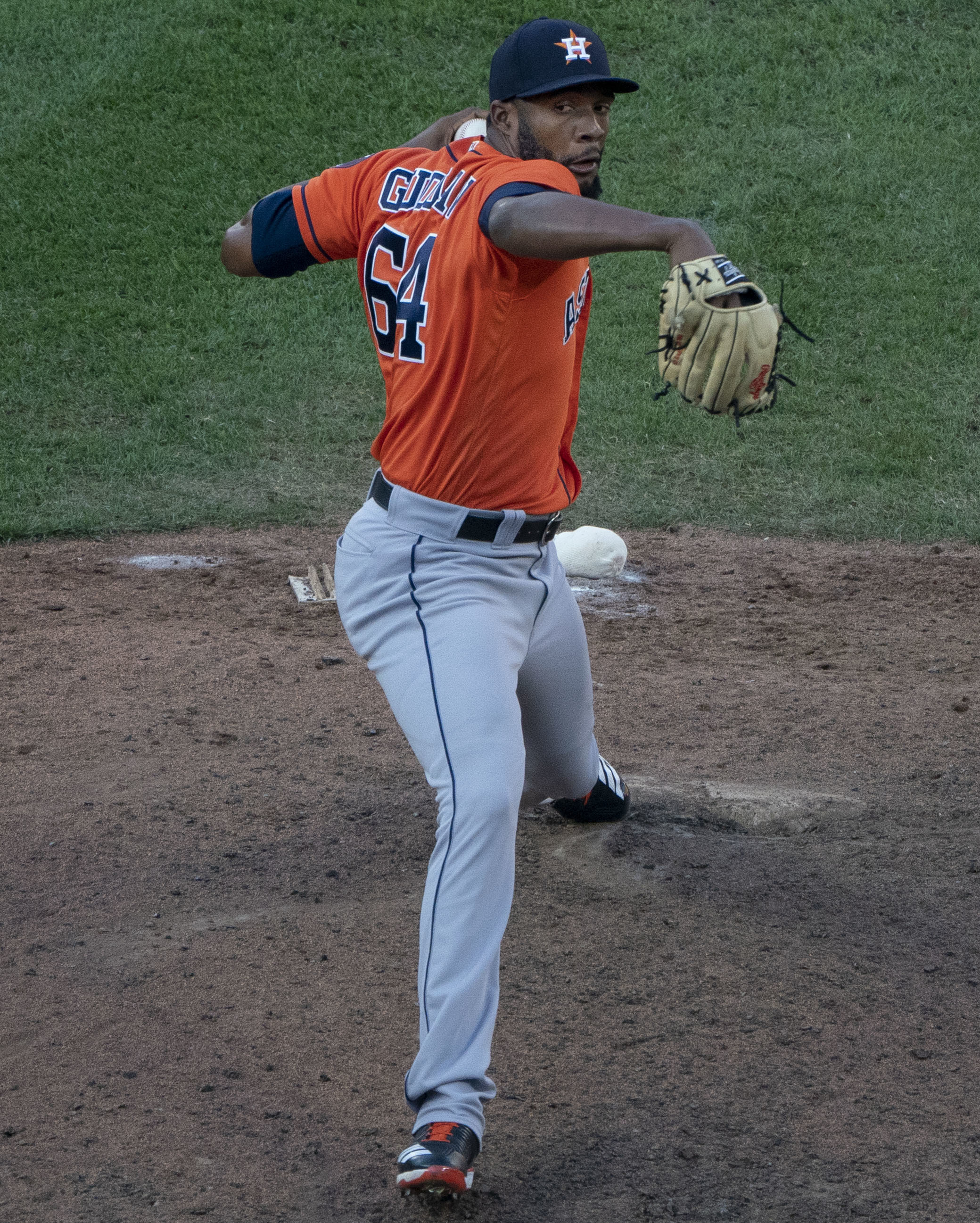 Reymin Guduan delivers a pitch for the Houston Astros during a 2018 game at Camden Yards in Baltimore.